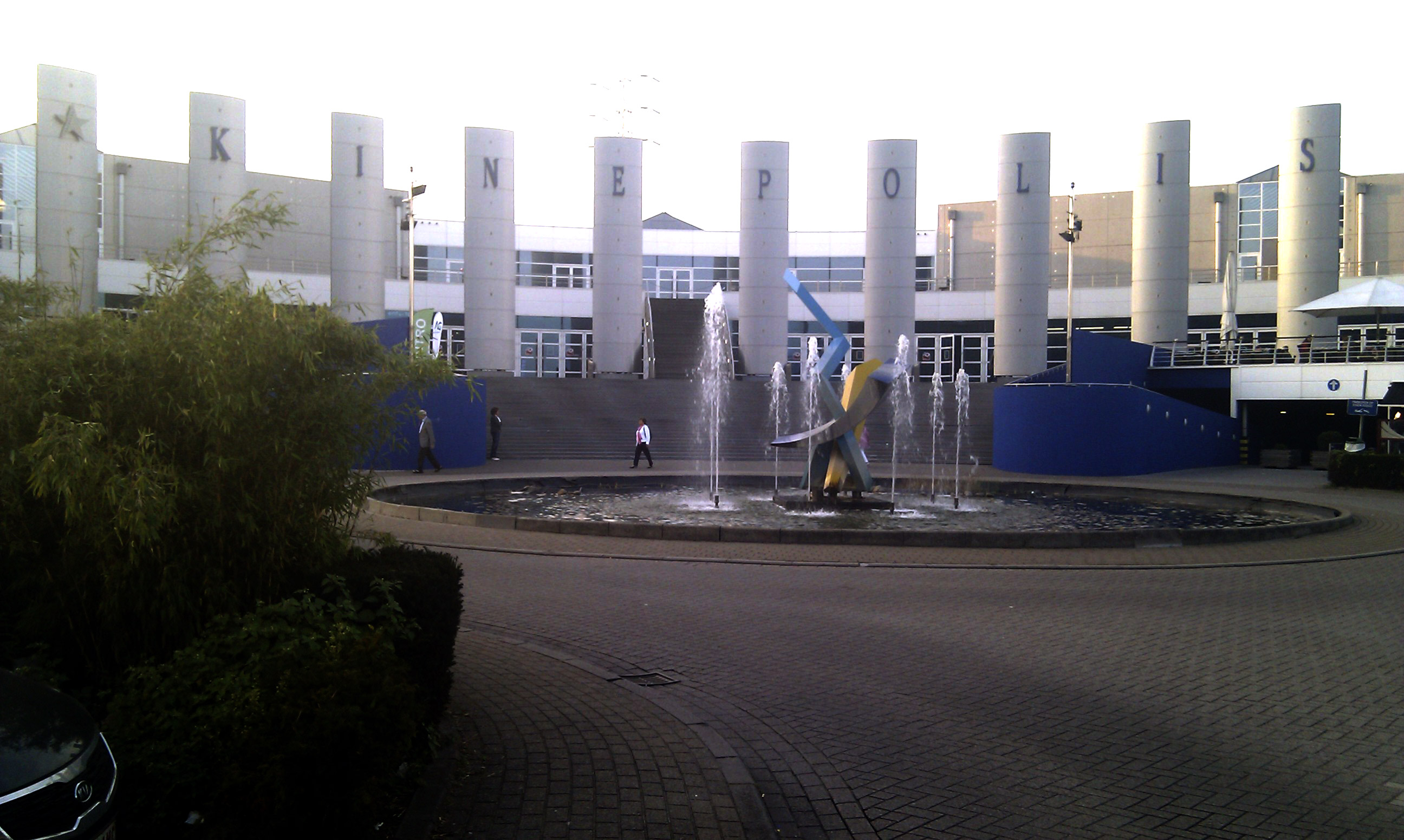 Kinepolis movietheatre in Antwerp.